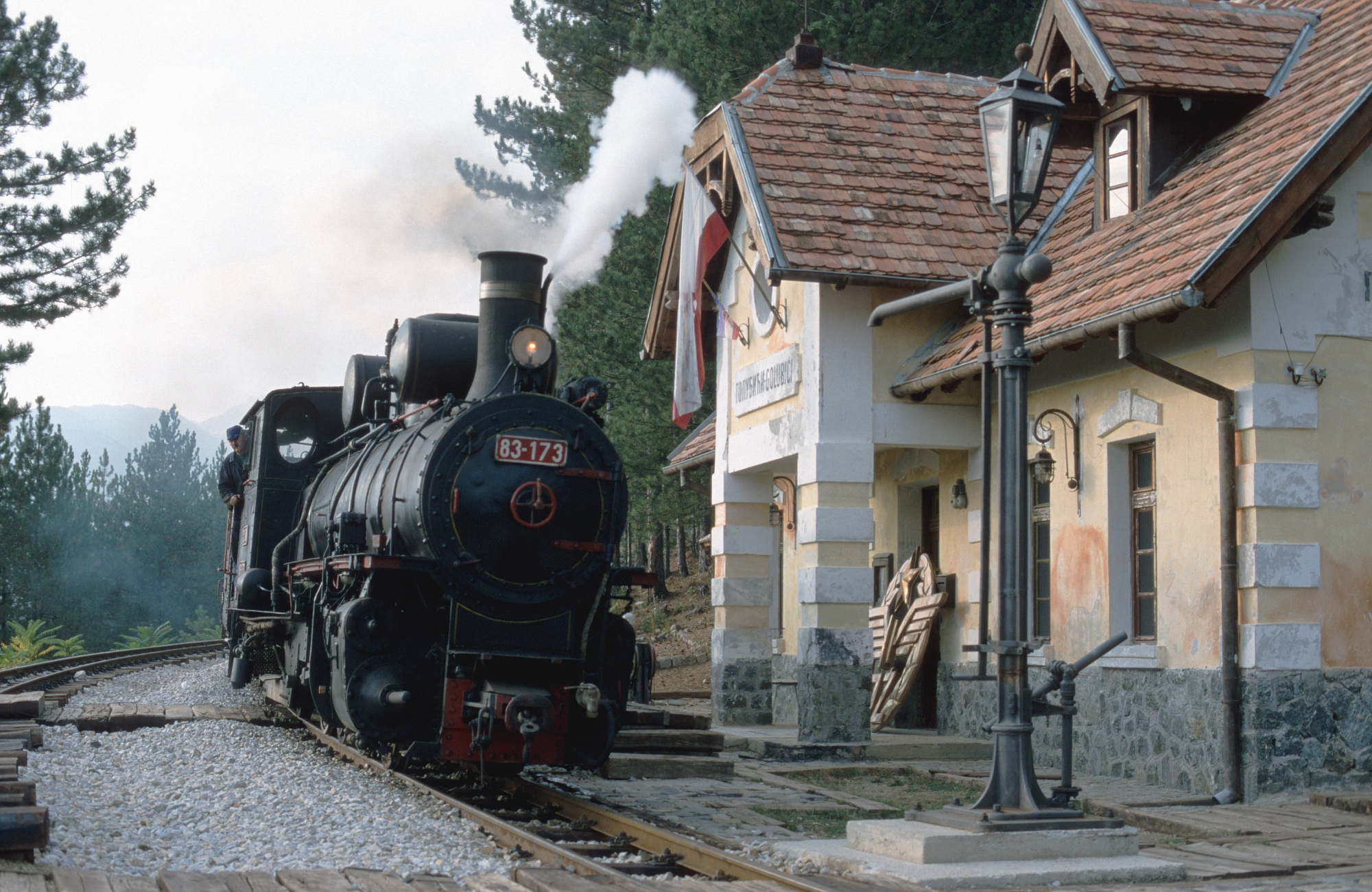 en: Former Yugoslavian States Railway JDŽ 83-173 on the Šarganska osmica heritage railway in Serbia. The small station of Golubici is built as a film scenery. de: Jugoslawische Staatsbahnen JDŽ 83-173 auf der Museumsbahn Šarganska osmica, Serbien. Der kleine Bahnhof Gulibici wurde als Filmkulisse aufgebaut.